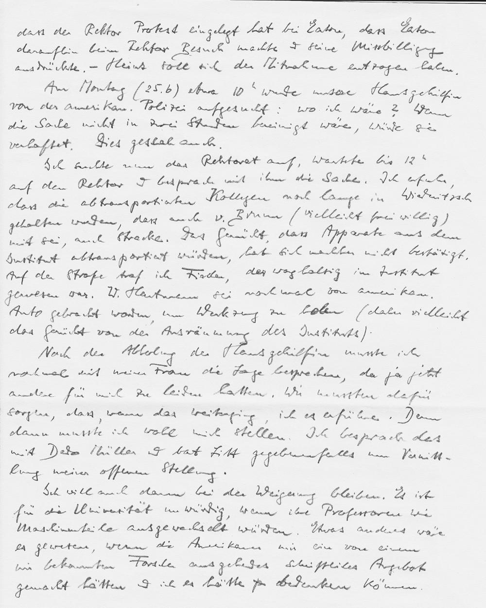 Page 4 of a manuscript by Friedrich Hund, 25 June 1945 at Leipzig (departure of the Americans).